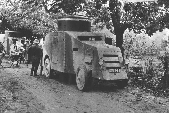 Swedish Pbil m/26 armoured car